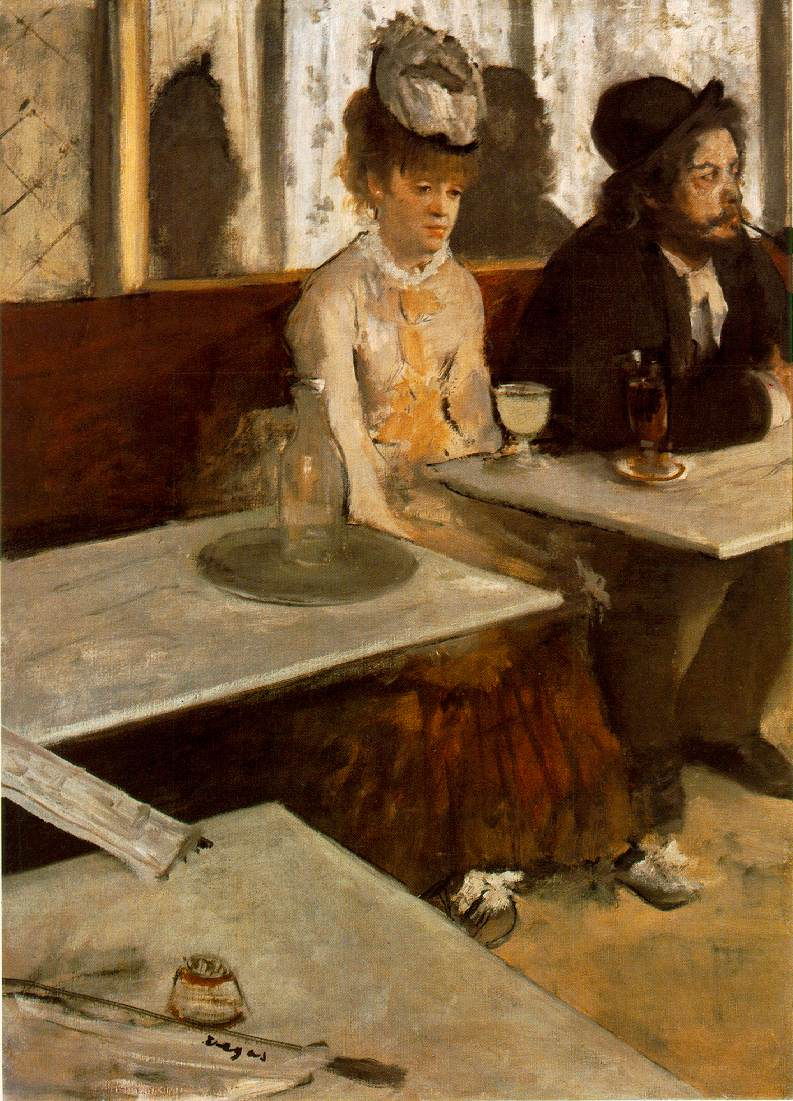 Absinthe by Edgar Degas